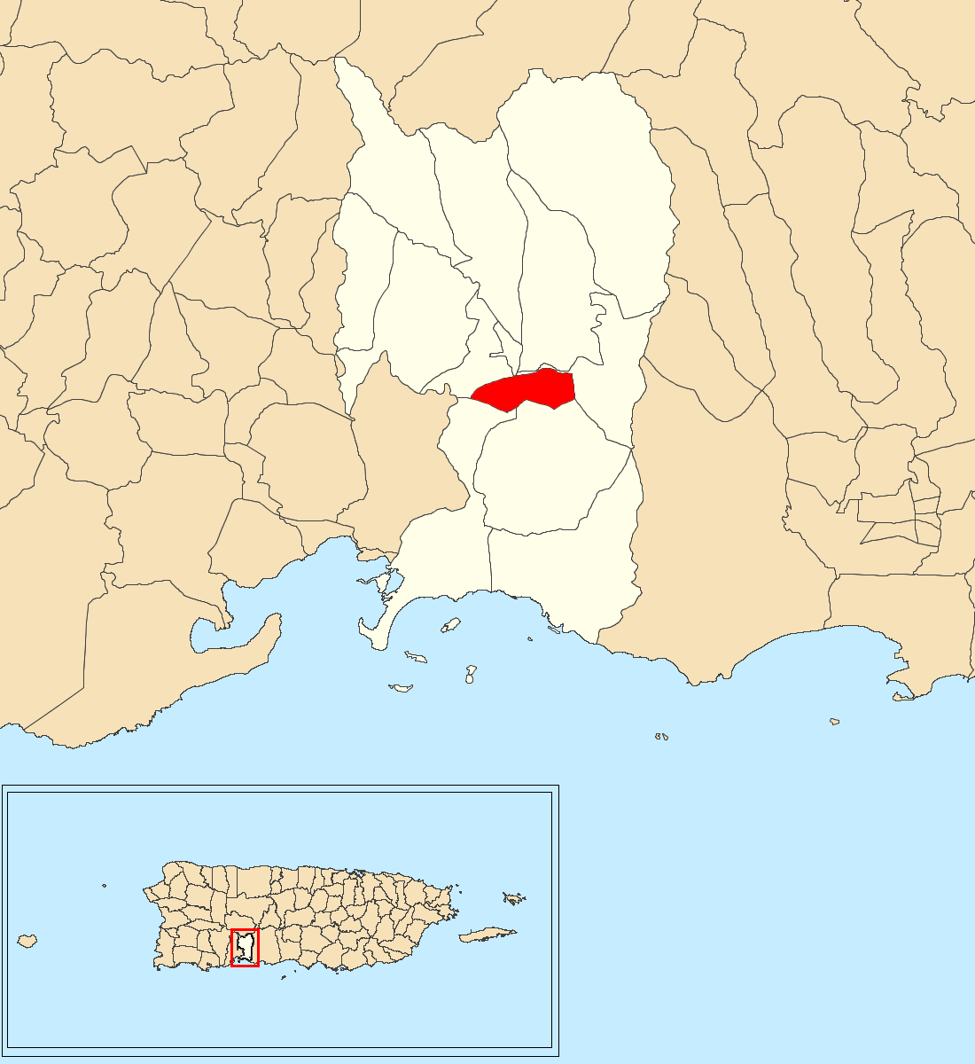 Cuebas, Peñuelas, Puerto Rico locator map